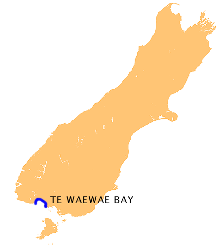 Location map of Te Waewae Bay, New Zealand